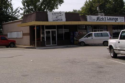 Mick's Lounge in Jeffersonville, site of first Papa John's.